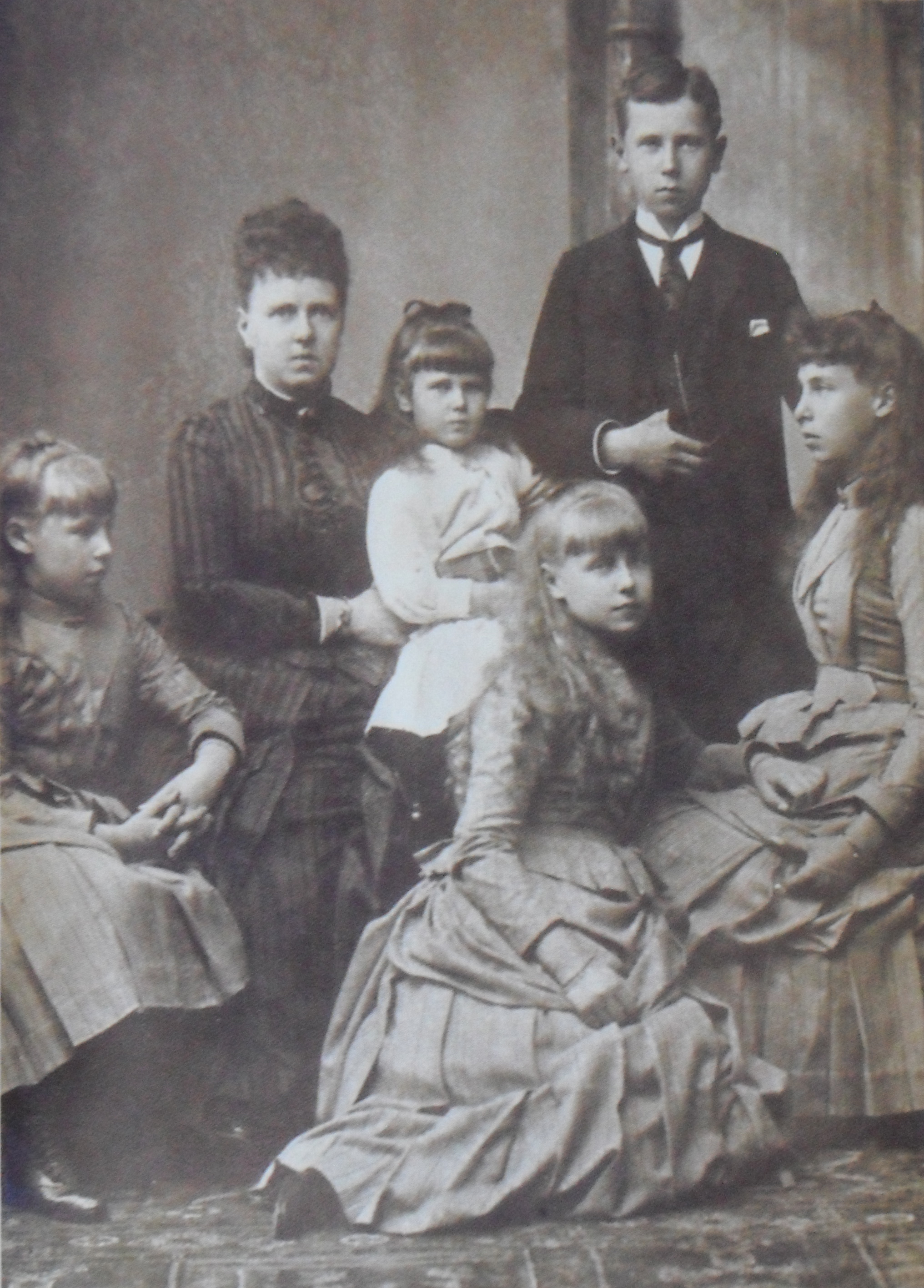 Grand Duchess Maria Alexandrovna of Russia (1853-1920), Duchess of Edinburgh with her children